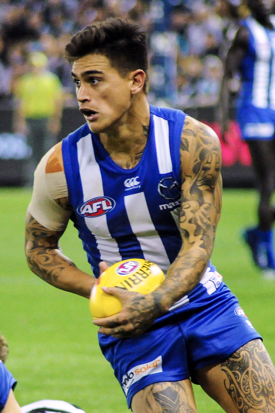 Marley Williams during the AFL round six match between North Melbourne and Port Adelaide on Saturday, 28 April 2018 at Etihad Stadium in Melbourne, Victoria.